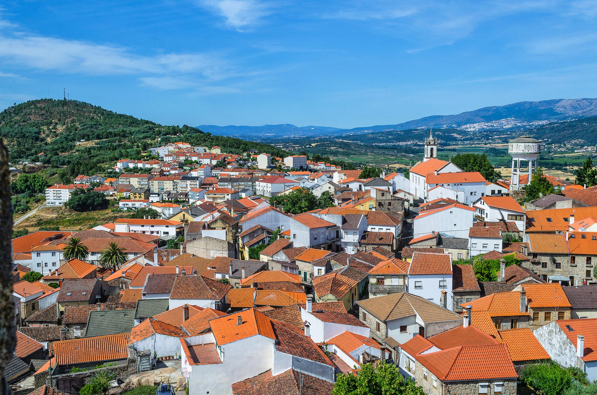 Belmonte